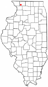 Category:Illinois city locator maps